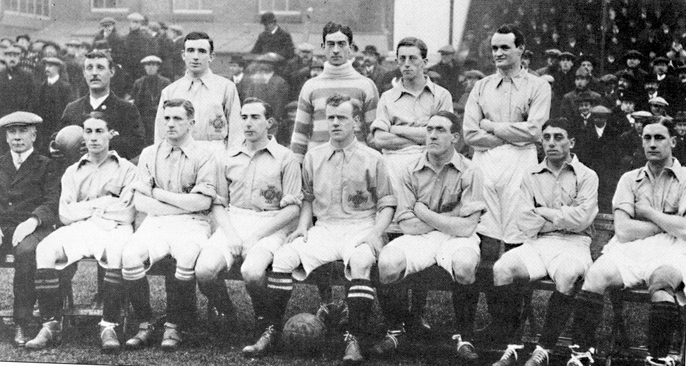 Ireland national football team (1882–1950), 1914. Back (l-r): Val Harris, Fred McKee, Davy Rollo, Patrick O'Connell. Front (l-r): EH Seymour, Sam Young, Billy Gillespie, Alex Craig, Bill Lacey, Louis Bookman, Bill McConnell